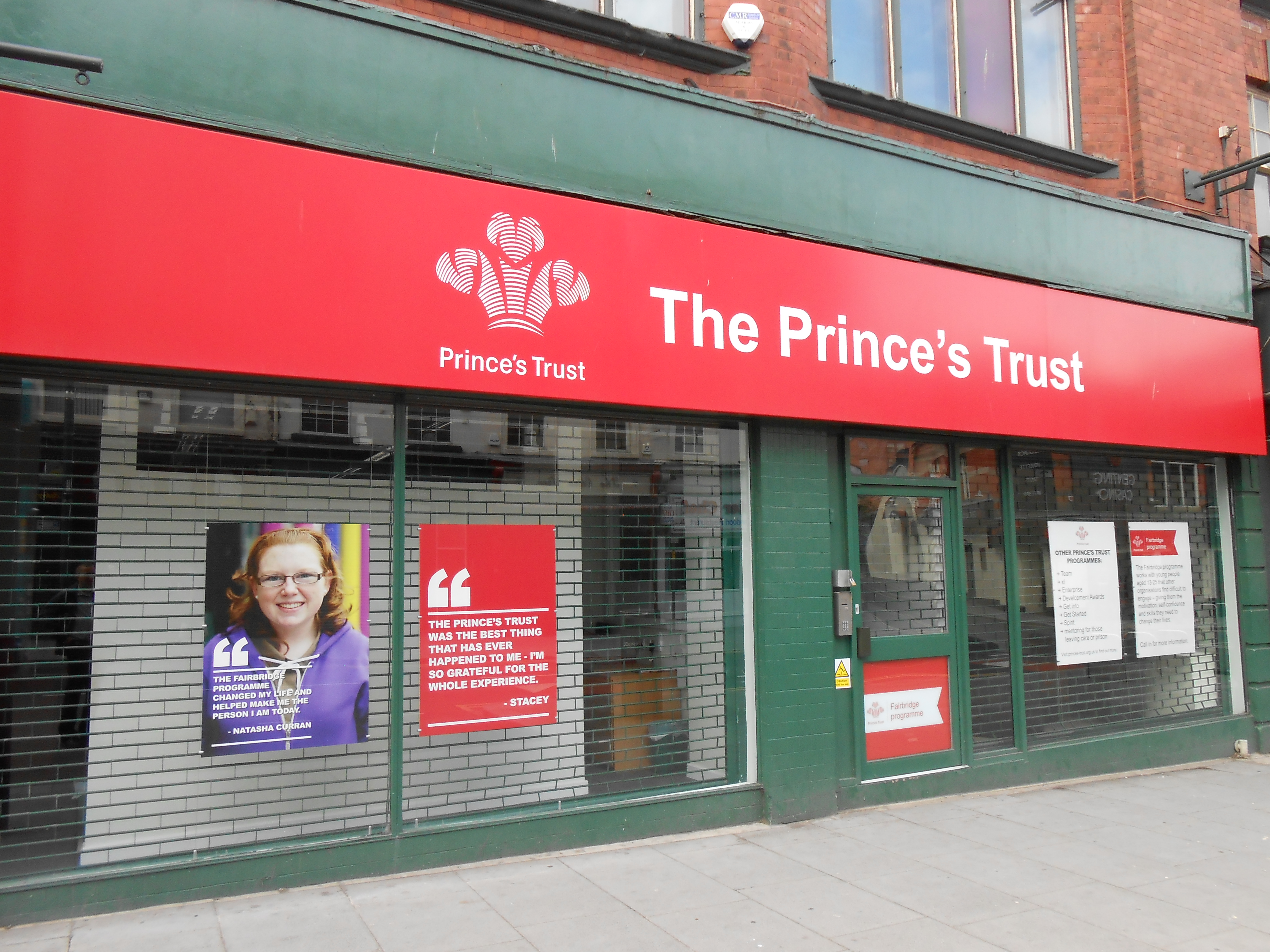 The Prince's Trust centre on Renshaw Street, Liverpool, England.